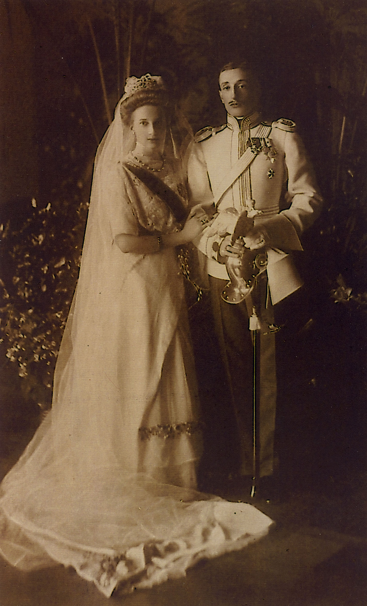 A wedding photo of the Georgian Prince Konstantine Bagration of Mukhrani and Princess Tatiana Constantinovna of Russia